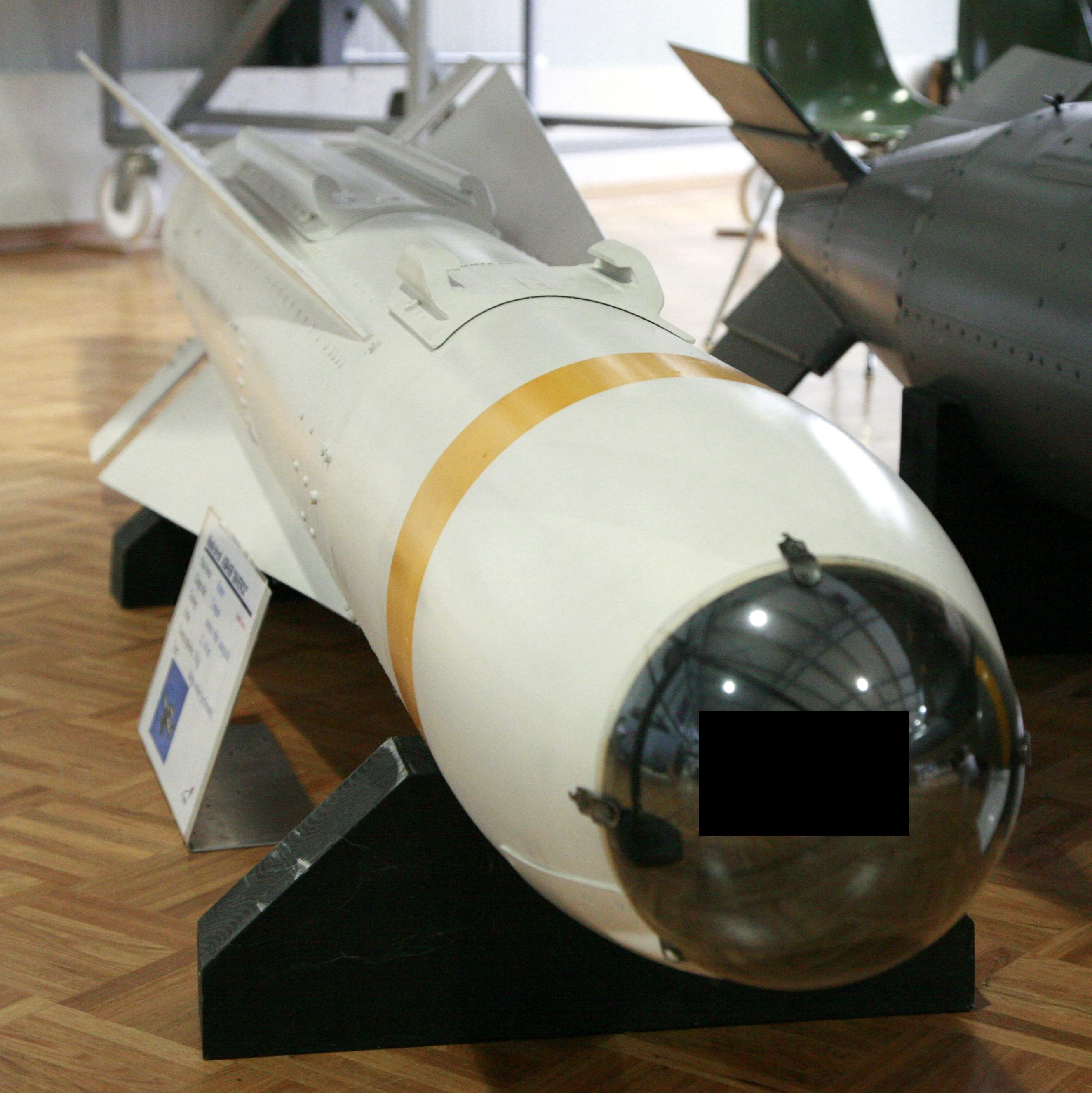 Inert AGM-65 Maverick missile of the Swiss Air Force, on display at Payerne Airbase.